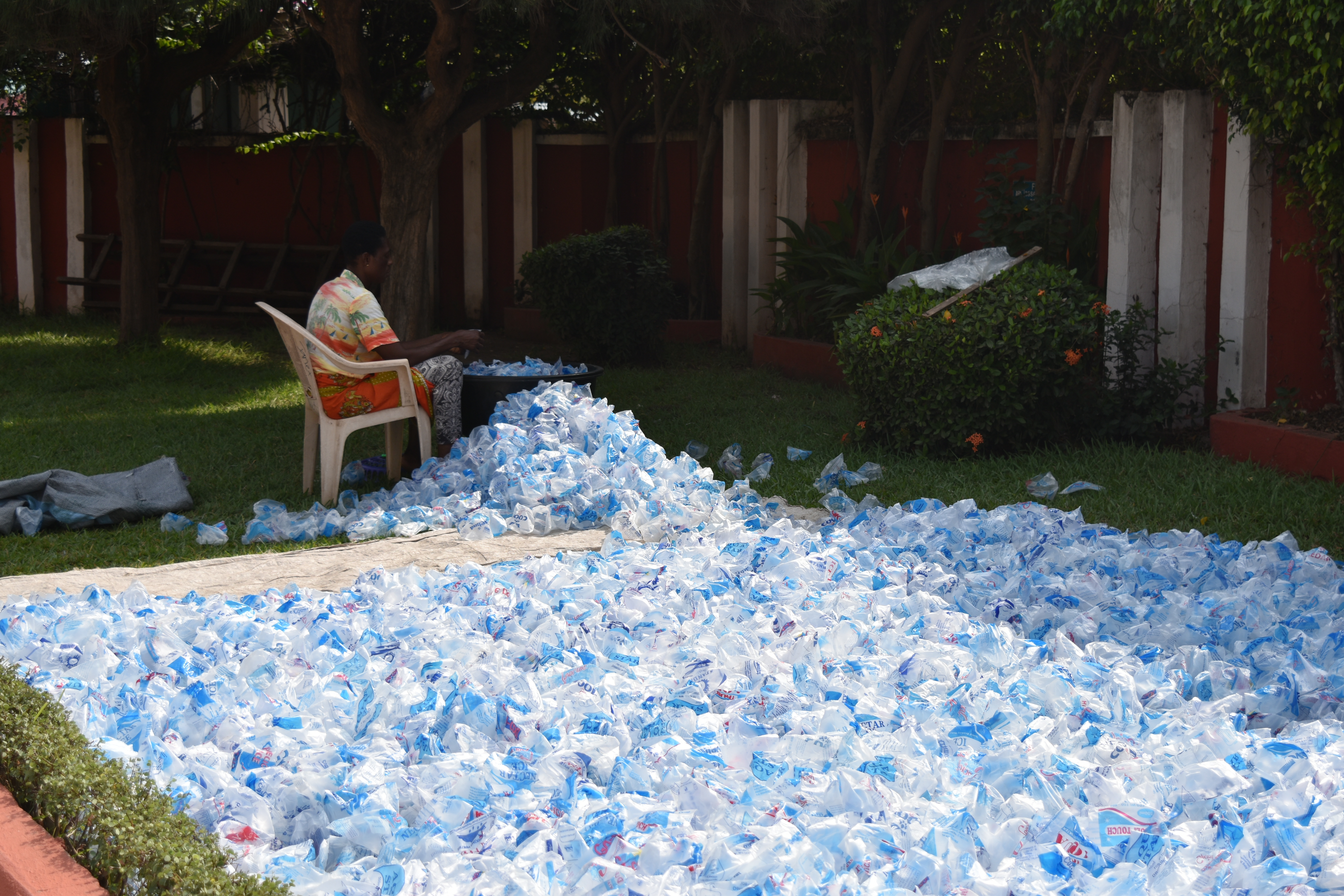 This is an image of "African people at work" from Ghana